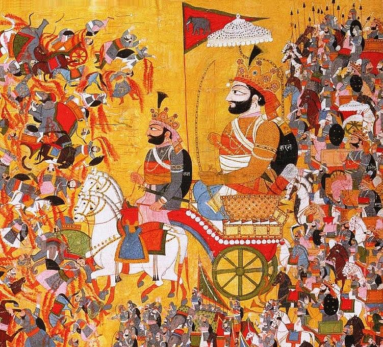 The painting depicts the battle of Kurukshetra of the Mahabharata epic. Karna, commander of the Kaurava army is seen here. The painting is made in Himachal Pradesh or Jammu and Kashmir state of India and is opaque watercolor on cloth.